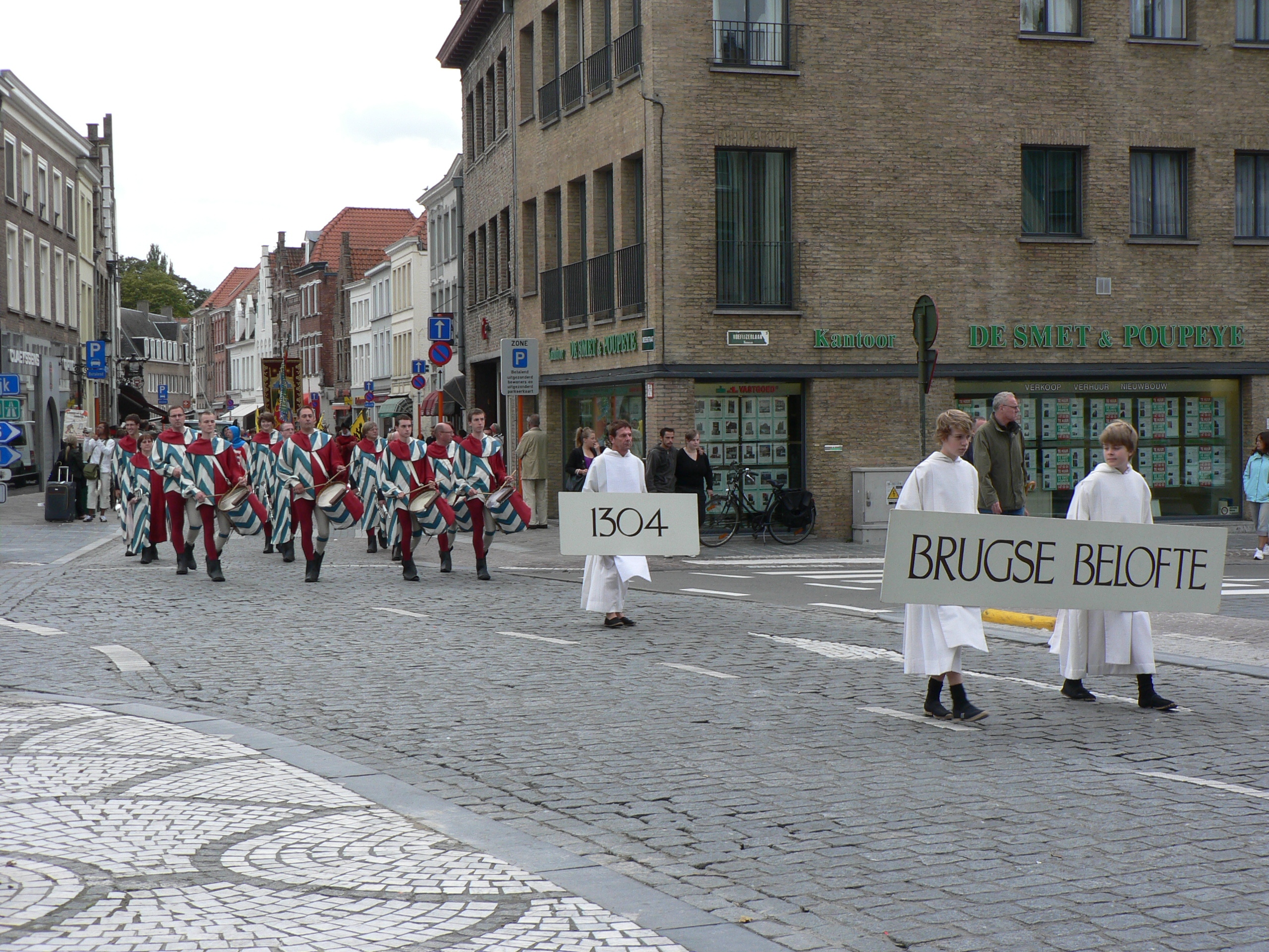 yearly procession "de Brugse belofte" in Bruges on 15 August - 1304 BRUGSE BELOFTE